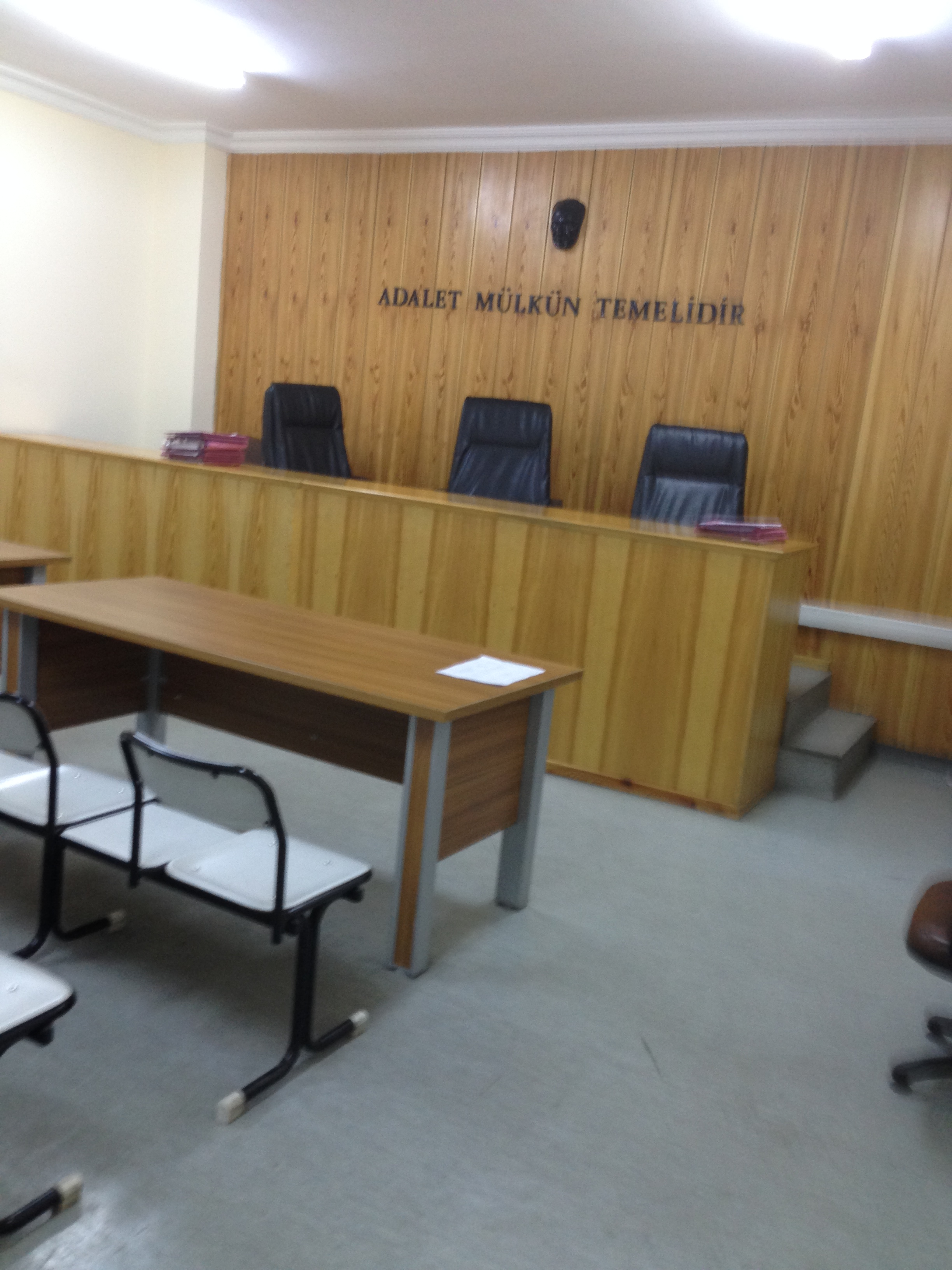 A courtroom in Turkey